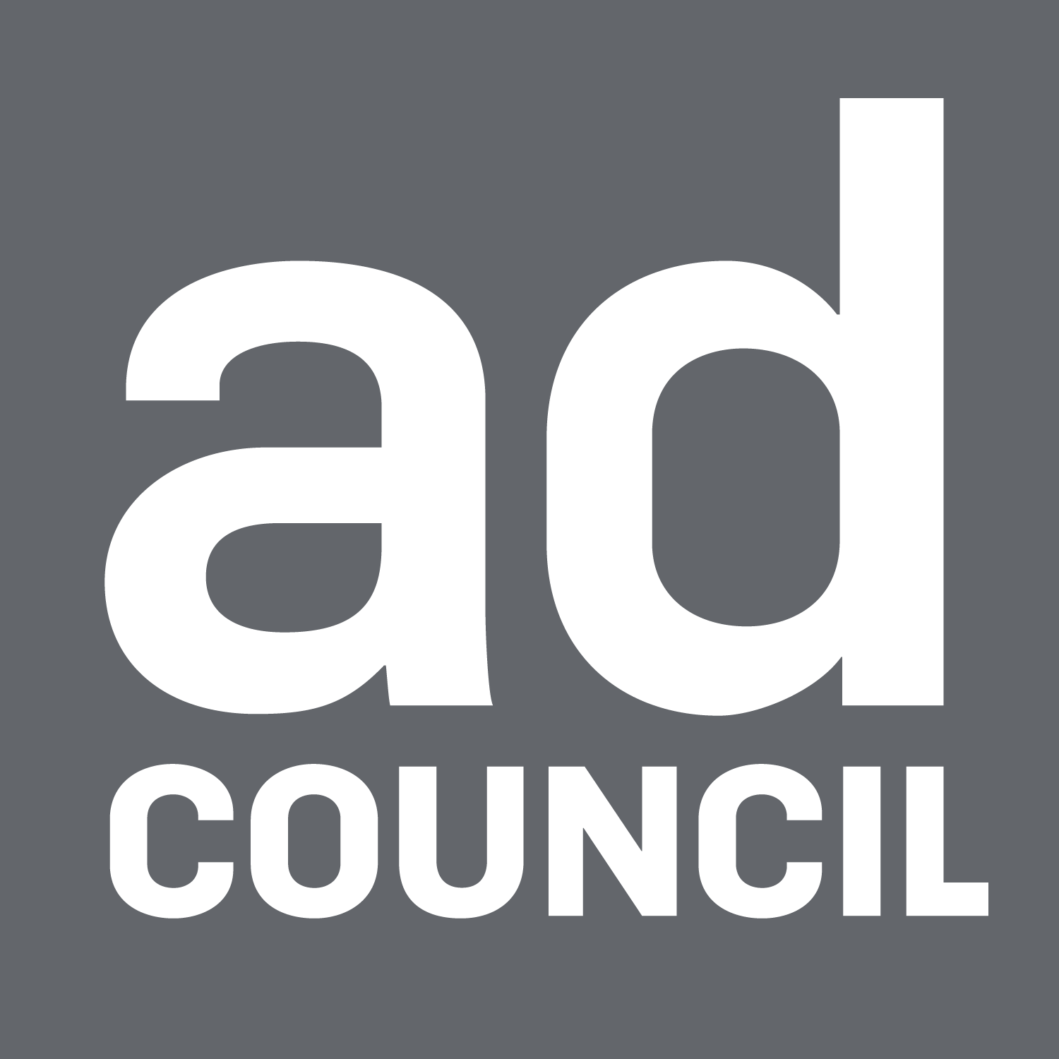 Ad Council logo